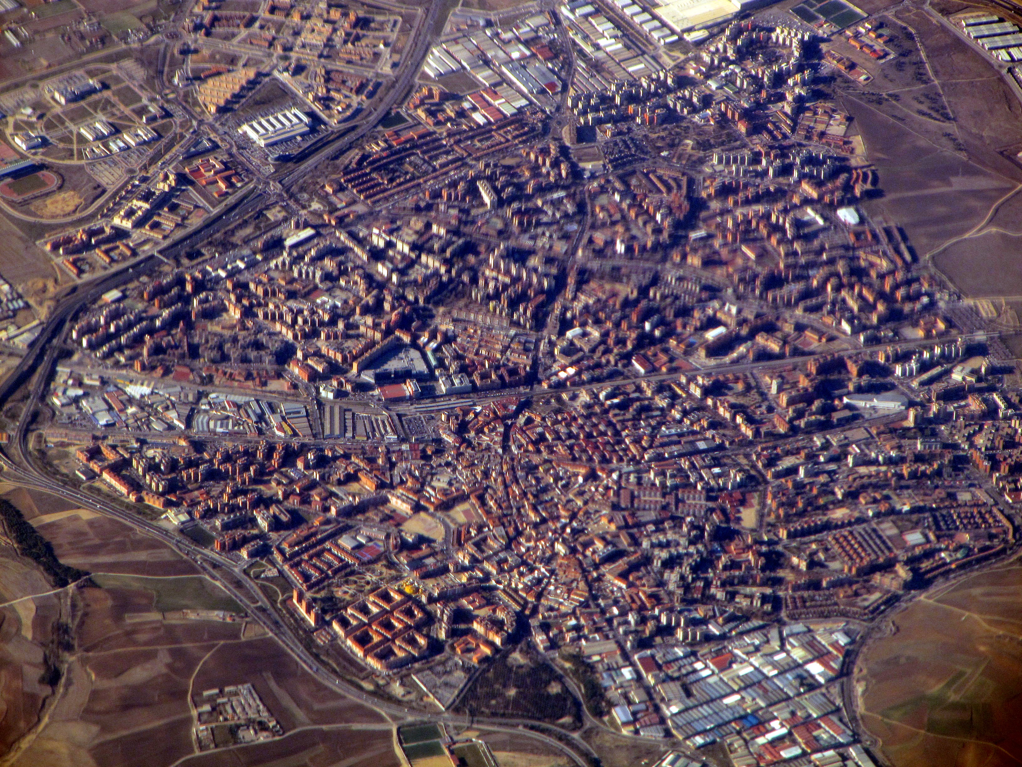 Fuenlabrada